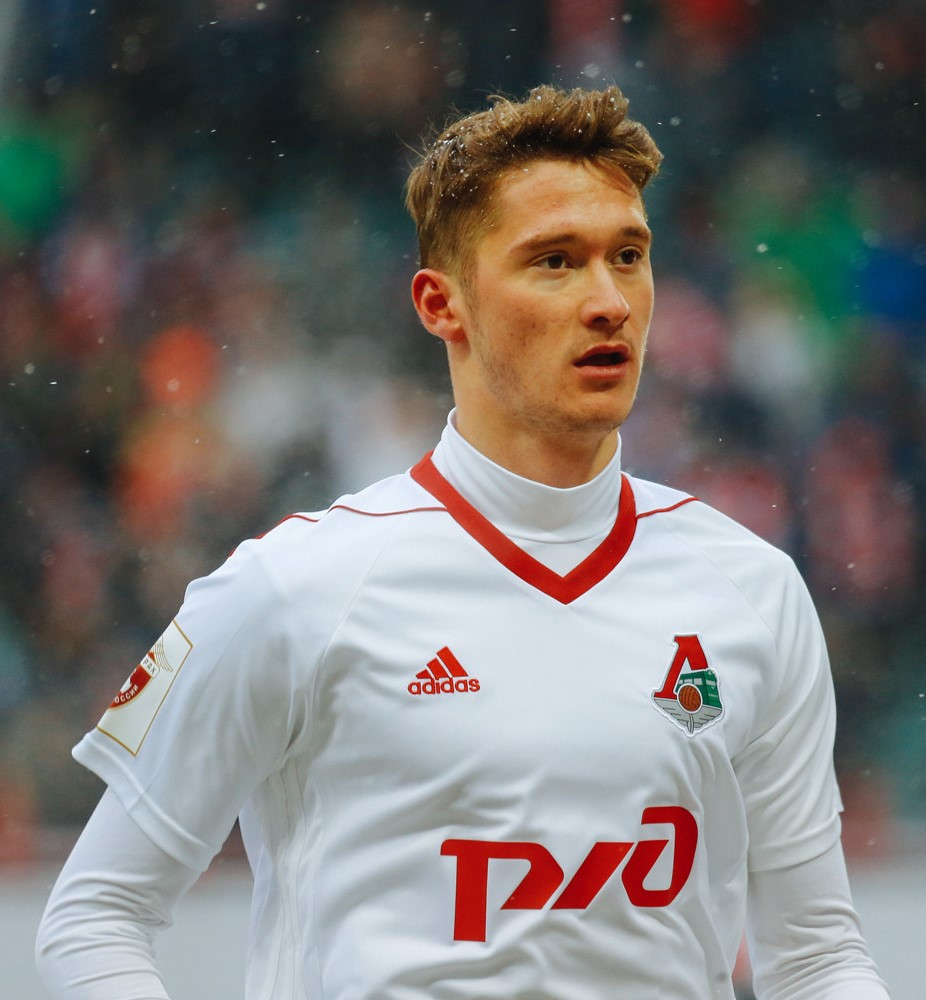 Aleksei Miranchuk